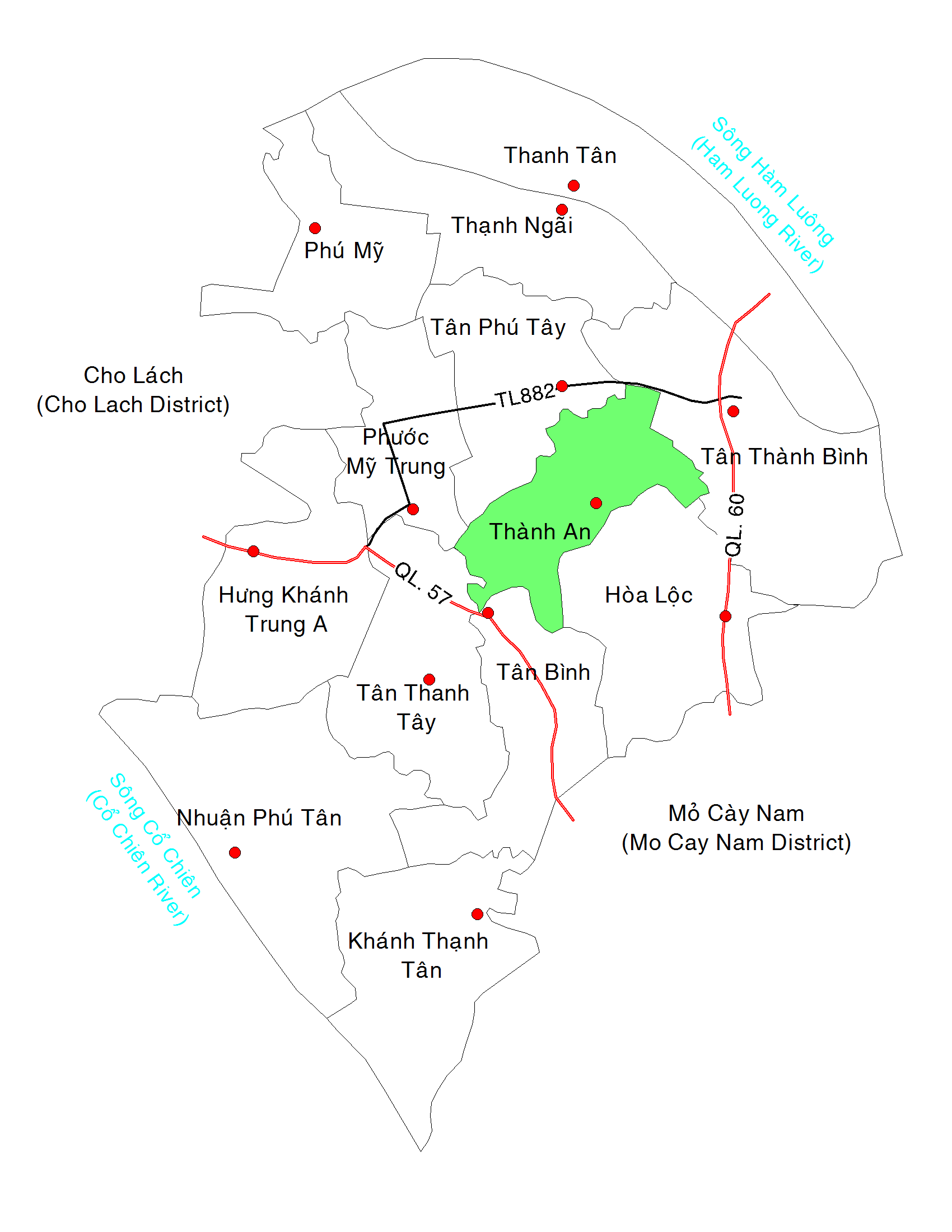 Locaiton map of Thành An commune, Mo Cay Bac District, Ben Tre province, Vietnam